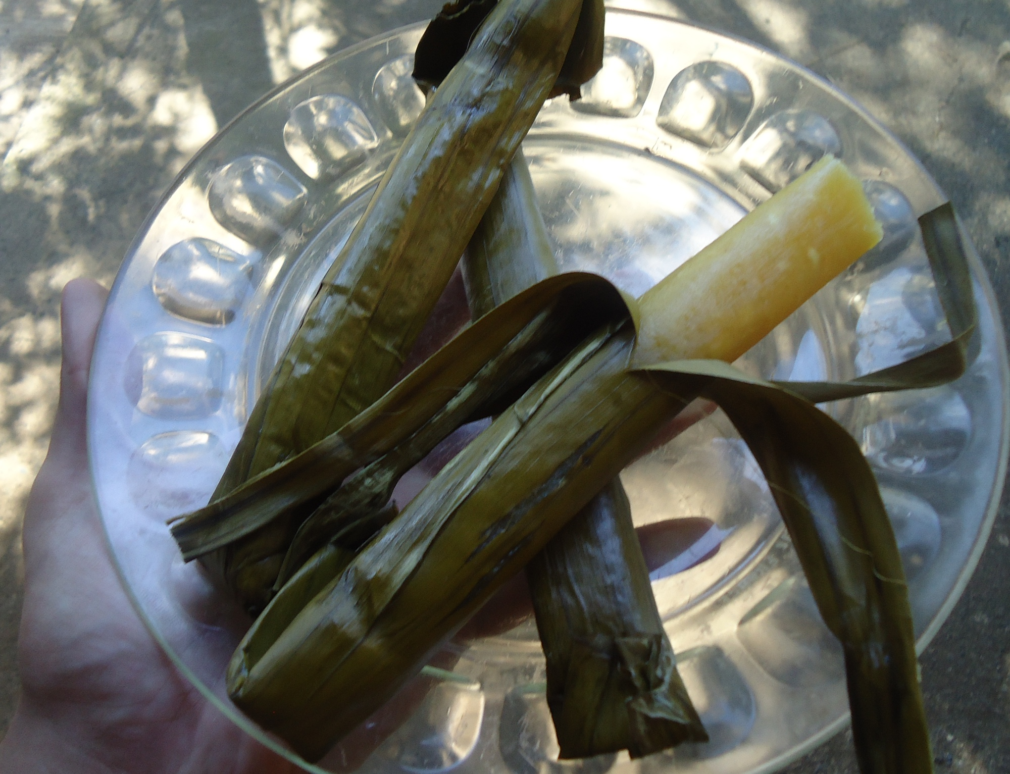 Cassava Suman from the Philippines